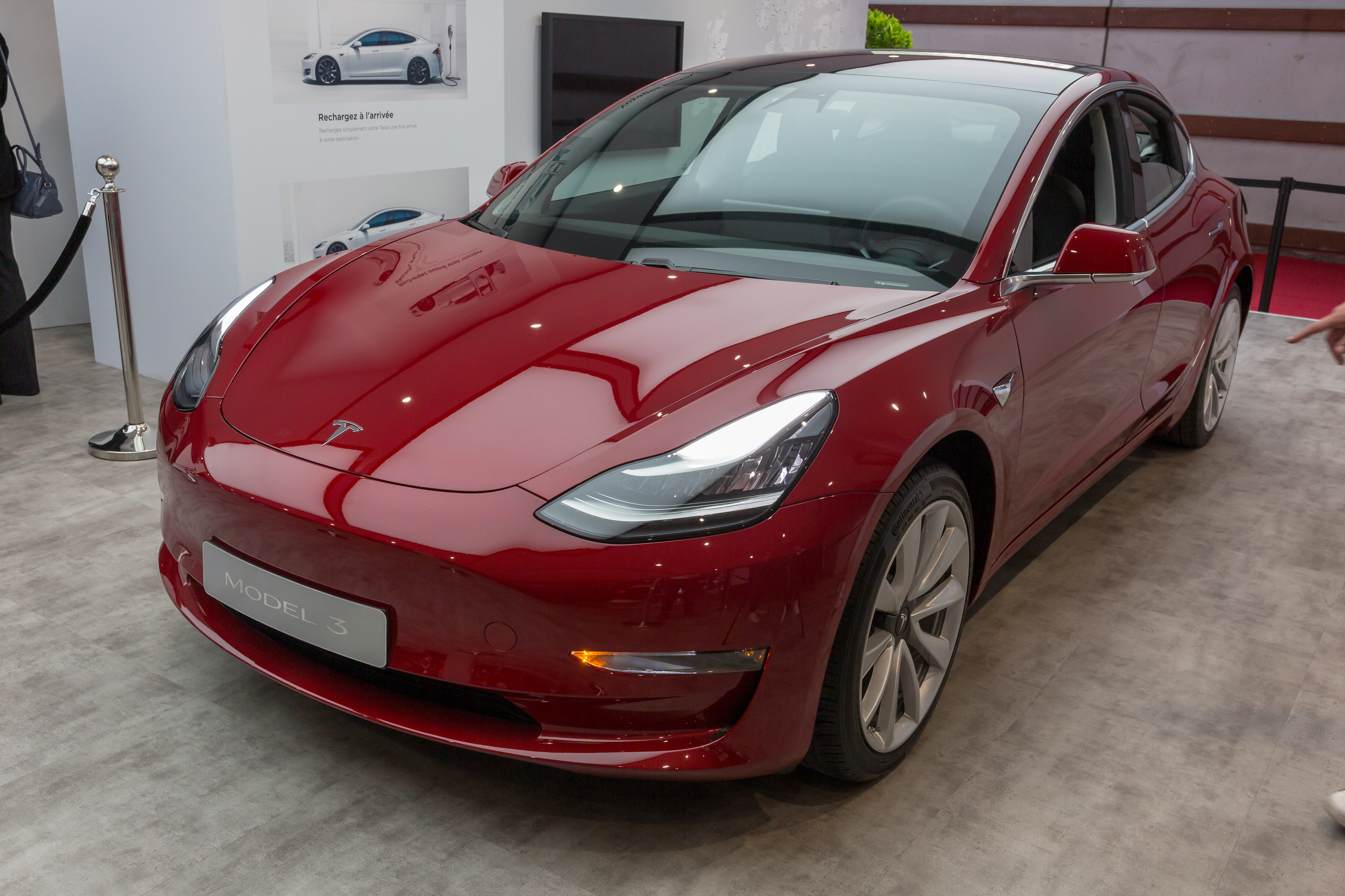 Tesla Model 3 at Mondial Paris Motor Show 2018